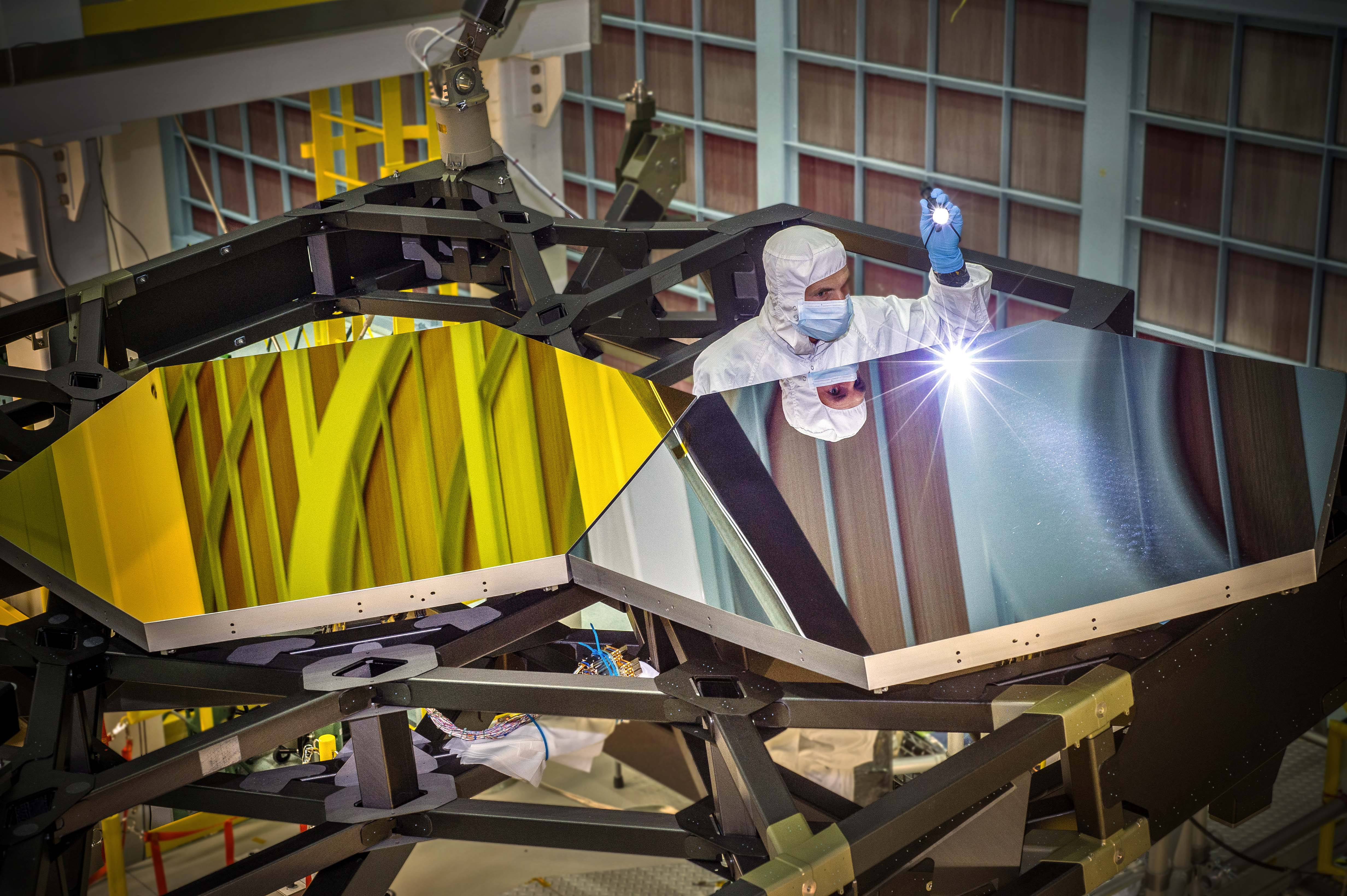 Inside NASA's Goddard Space Flight Center's giant clean room in Greenbelt, Md., JWST Optical Engineer Larkin Carey from Ball Aerospace, examines two test mirror segments recently placed on a black composite structure. This black composite structure is called the James Webb Space Telescope's “Pathfinder” and acts as a spine supporting the telescope's primary mirror segments. The Pathfinder is a non-flight prototype. The mirrors were placed on Pathfinder using a robotic arm move that involved highly trained engineers and technicians from Exelis, Northrop Grumman and NASA. "Getting this right is critical to proving we are ready to start assembling the flight mirrors onto the flight structure next summer," said Lee Feinberg, NASA's Optical Telescope Element Manager at NASA Goddard. "This is the first space telescope that has ever been built with a light-weighted segmented primary mirror, so learning how to do this is a groundbreaking capability for not only the Webb telescope but for potential future space telescopes." The James Webb Space Telescope is the successor to NASA's Hubble Space Telescope. It will be the most powerful space telescope ever built. Webb is an international project led by NASA with its partners, the European Space Agency and the Canadian Space Agency. For more information about the Webb telescope, visit: or Credit: NASA/Chris Gunn NASA image use policy. NASA Goddard Space Flight Center enables NASA’s mission through four scientific endeavors: Earth Science, Heliophysics, Solar System Exploration, and Astrophysics. Goddard plays a leading role in NASA’s accomplishments by contributing compelling scientific knowledge to advance the Agency’s mission. Follow us on Twitter Like us on Facebook Find us on Instagram